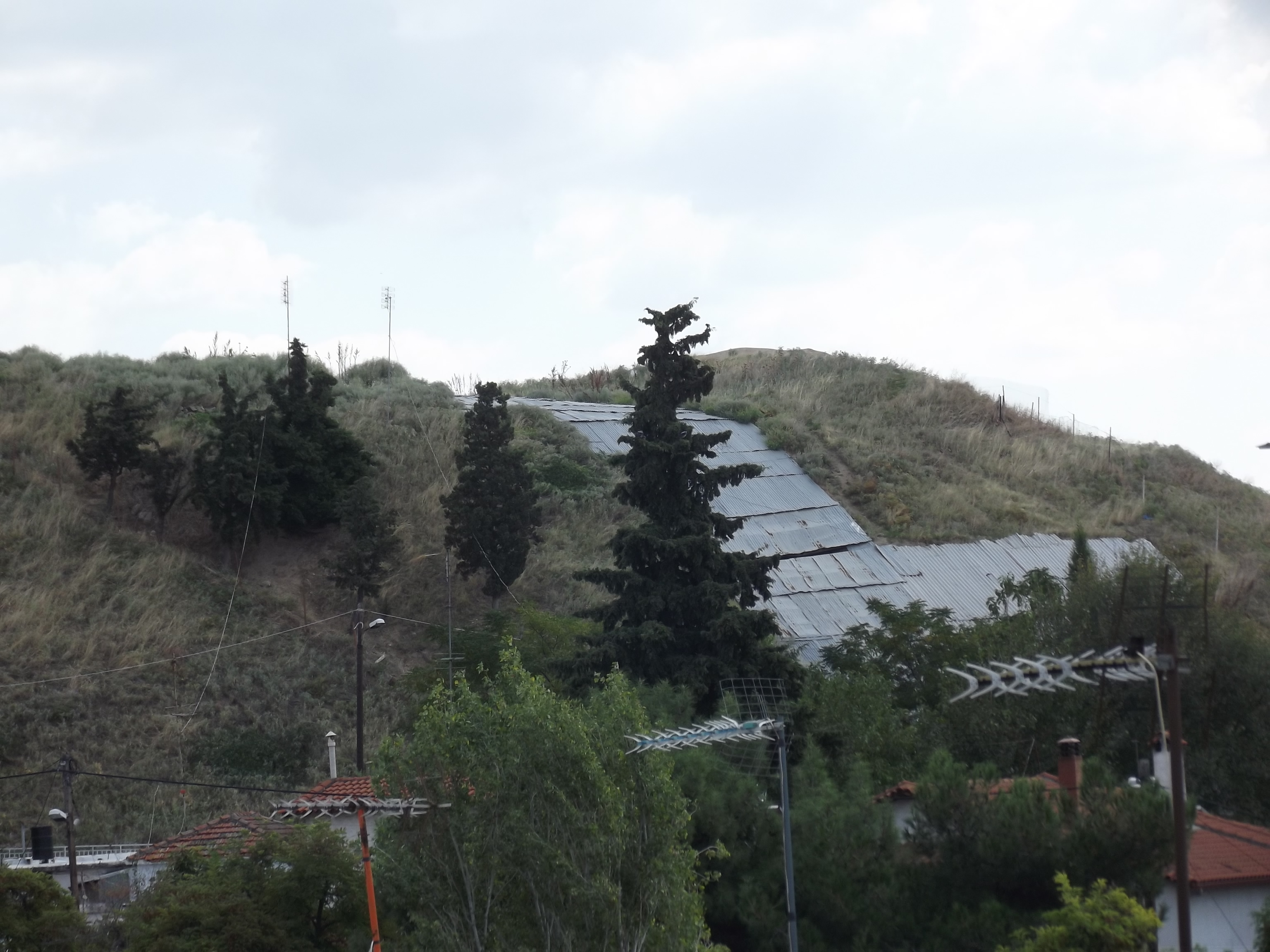 Excavation site in Toumpa, Thessaloniki